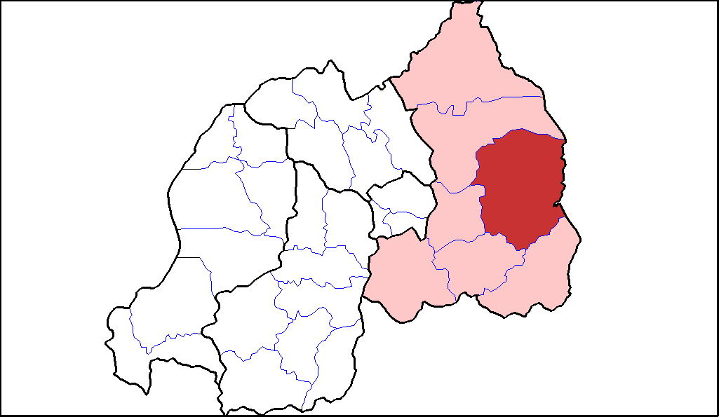 Kayonza District, location within the Eastern Province of Rwanda.